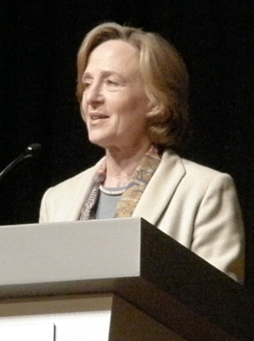 MIT President Susan Hockfield